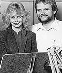 Photo of Dianne Kay and me (WikiFred)